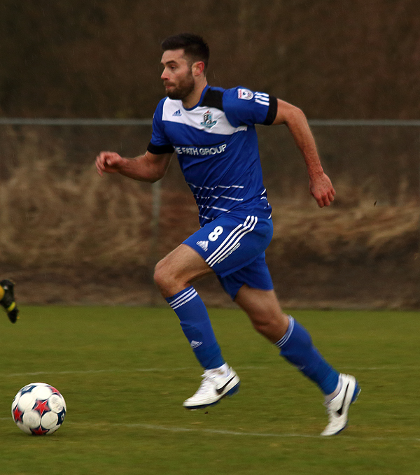 Ritchie Jones, then of FC Edmonton, in preseason action against Trinity Western University on March 20, 2014. Own work, public domain.